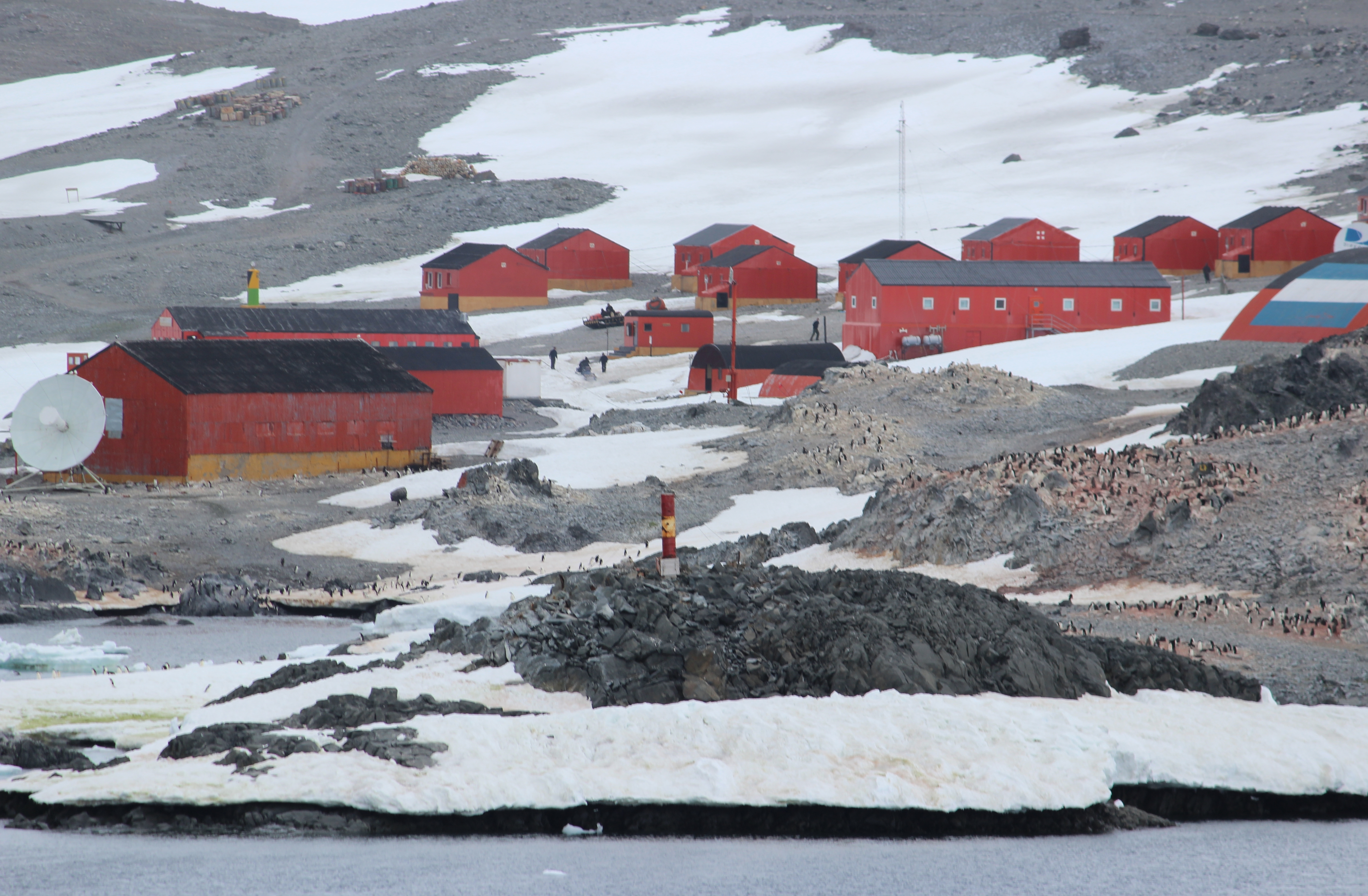 Argentinian Station In Antarctica